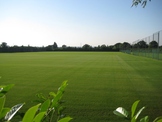 The Arsenal Training Centre was opened in 1999, costing £10 million. It houses ten full size pitches, two with under-soil heating, and a state-of-the-art dressing room complex. These facilities are owned by Arsenal and are also regularly used by the England national team for training in advance of club and international matches, respectively. This image was taken from the Watling Chase Timberland Trail public footpath.